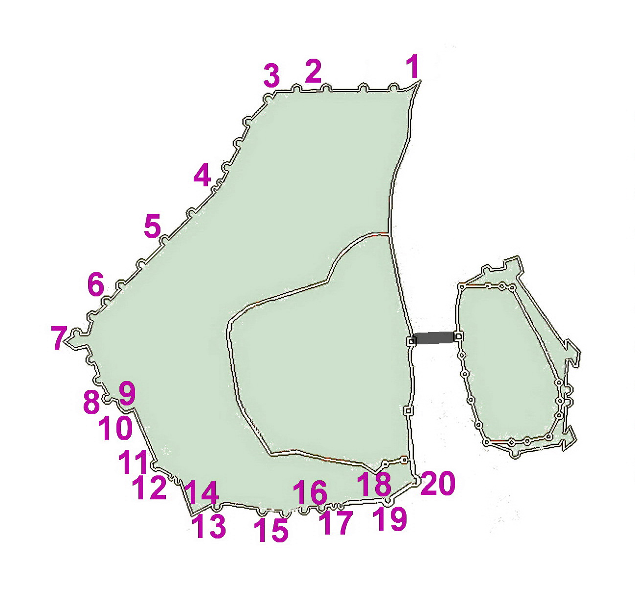 Stylized map of the medieval city of Maastricht, the Netherlands, showing the second medieval city wall (ca 1375). The bridge accross the river Meuse connects the two parts of the city. The names of gates, towers and bullwarks on the left bank are given below: 1. Schonevaardersbolwerk • 2. Boschpoort • 3. Boschkat • 4. Lindenkruispoort • 5. Kat Hoog Frankrijk • 6. Kat Nassau • 7. Brusselsepoort • 8. Hackenkamer • 9. Kat Brandenburg • 10. Sint-Servaasbolwerk • 11. Merkat • 12. Tongersepoort • 13. Lange Toren • 14. Tongersekat • 15. De Reek • 16. Nieuwenhofpoortje • 17. Sint-Pieterspoort • 18. Pater Vincktoren • 19. Haet ende Nijt • 20. De Vijf Koppen